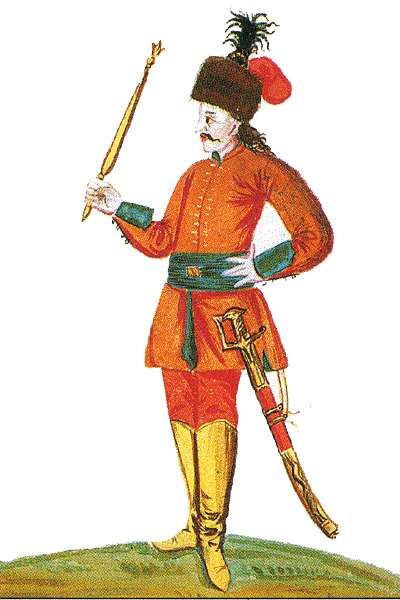 Francisc Rhédely. Hungarian nobleman. Prince of Transylvania.